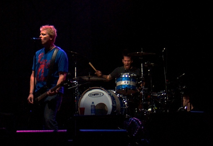 Dexter Holland and Atom Williard Live at Rock In Idro, Milan 03/09/2005